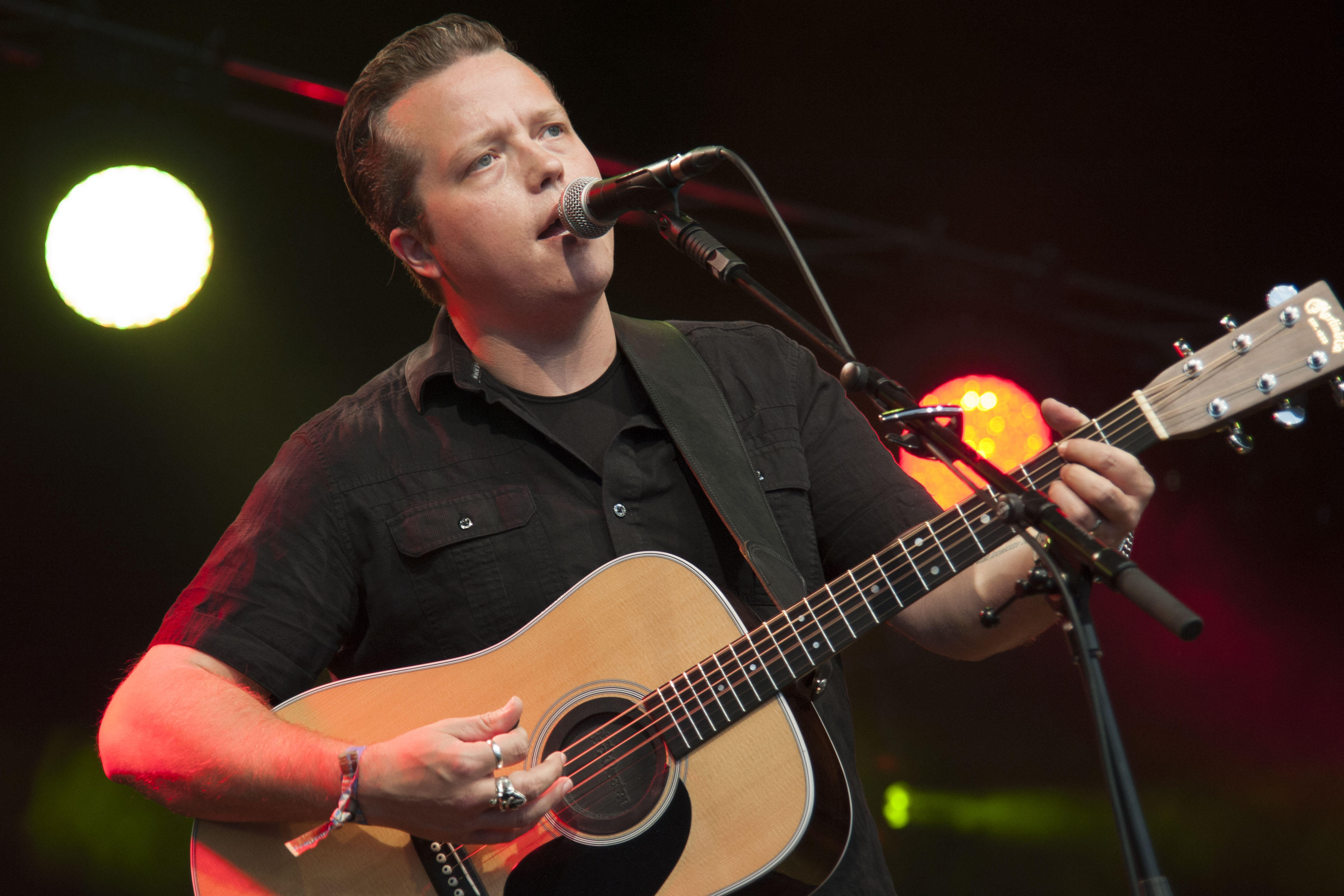 Jason Isbell at Cambridge Folk Festival 50th Anniversary.